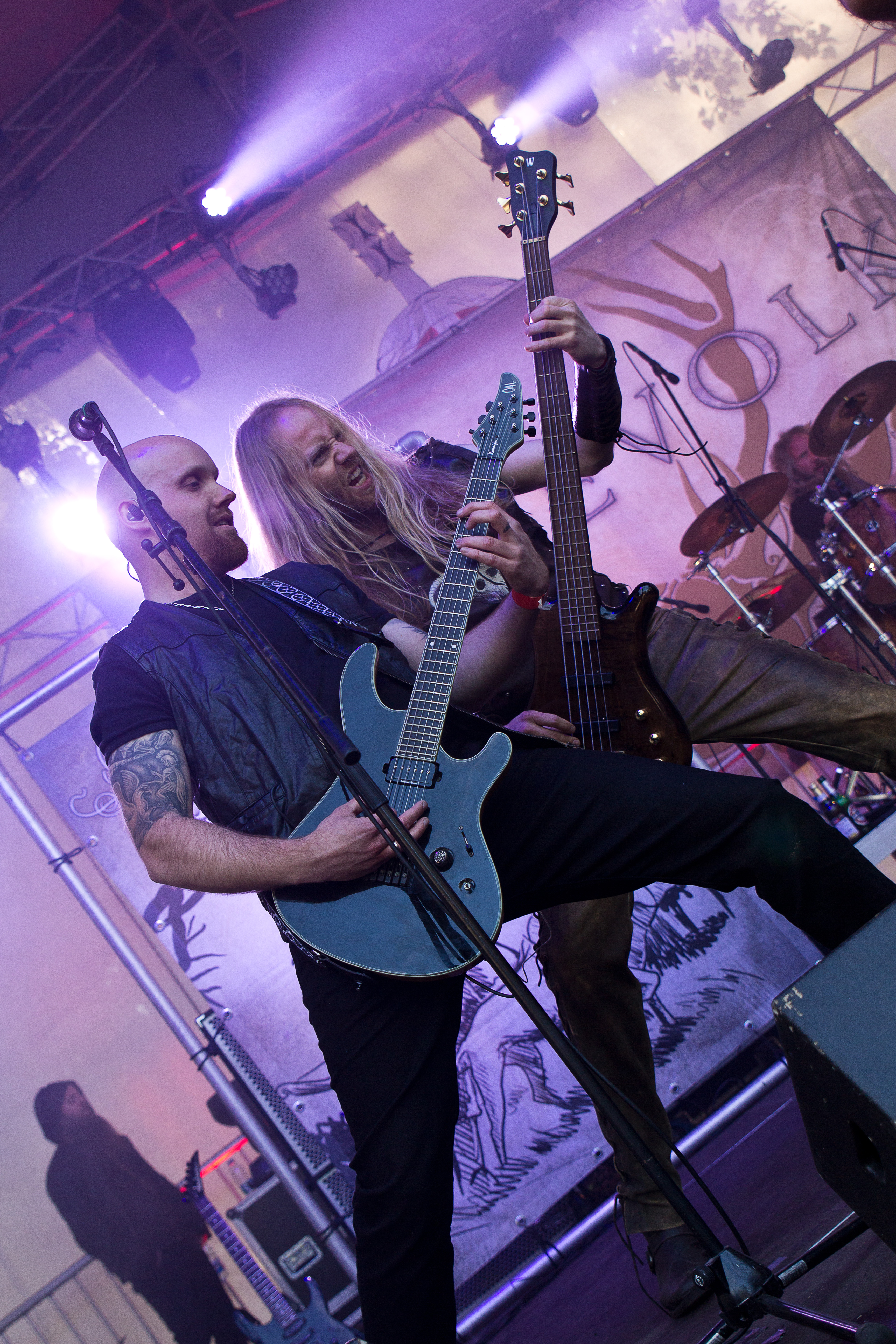 The Dutch folk and pagan metal band Heidevolk at the 25. Wave-Gotik-Treffen 2016 in Leipzig/Germany.